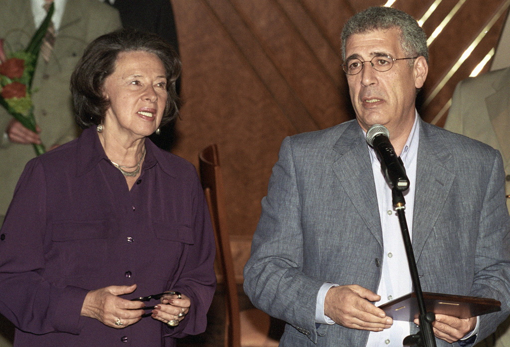 “"Person of the Year" prize”. TV host Lev Novozhenov (right) giving "Person of the Year" prize in the Enlightening Activity nomination to Alla Gerber, director of the Holocaust foundation